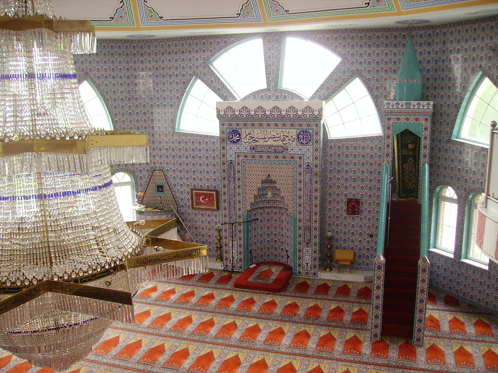 Fatih Mosque, Essen